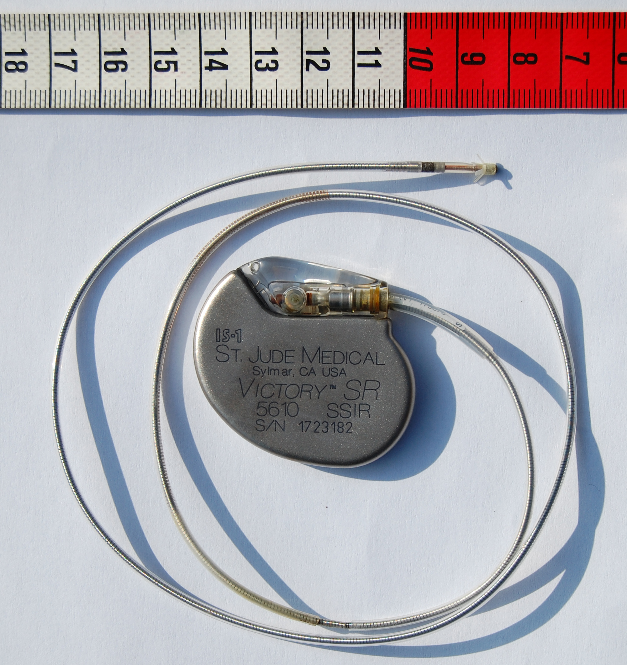 An artificial pacemaker (serial number 1723182) from St. Jude Medical, with electrode. The body of the device is about 4 centimeters long, and the electrode measures roughly 58 centimeters.